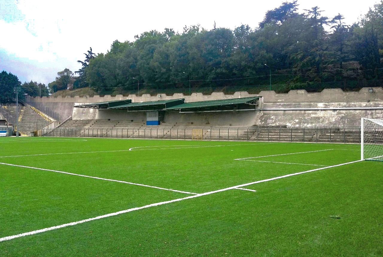 Silvio Renzulli Stadium in Ariano Irpino, Italy